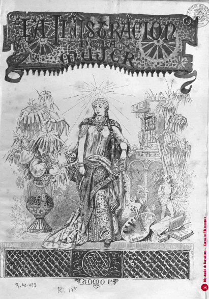 Ilustración de la Mujer Tomo I, 1883